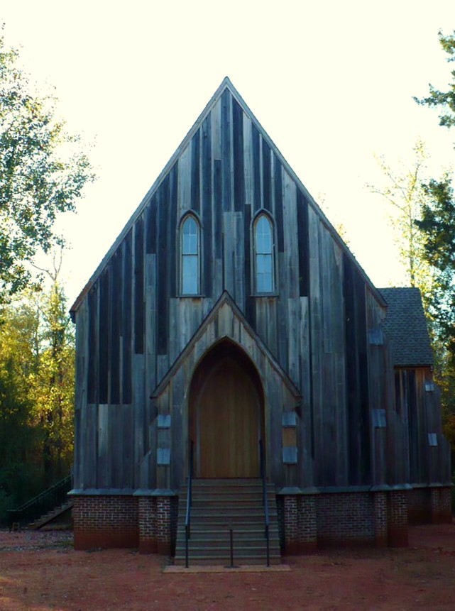 St. Luke's Episcopal Church in Cahaba, Alabama, United States. FRONT VIEW, SOUTHEASTERN FACADE. Built on Vine Street in Cahaba in 1854 in the Carpenter Gothic style. Moved to Martin's Station, Alabama in 1878, after Cahaba was largely abandoned. Added to the National Register of Historic Places on March 25, 1982. Moved back to Cahaba from 2006-2007 by Auburn University's Rural Project and the Alabama Historical Commission. Restored near the corner of Beech Street (now Cahaba Road) and Capitol Avenue from 2007-2010.